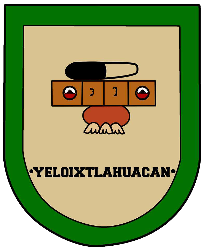 Escudo San Pedro Yeloixtlahuaca